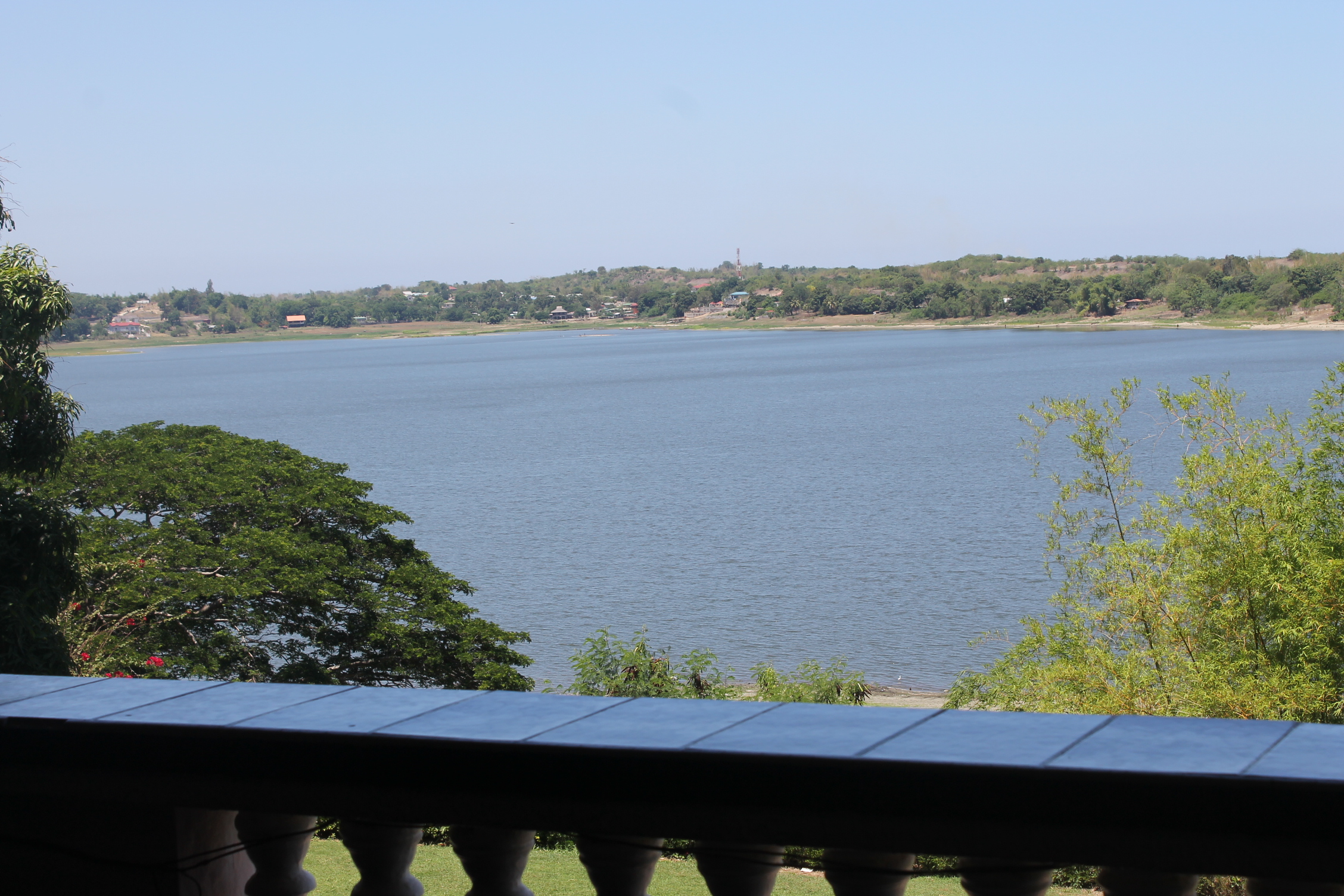 Paoay Lake as seen from Malacanang of the North